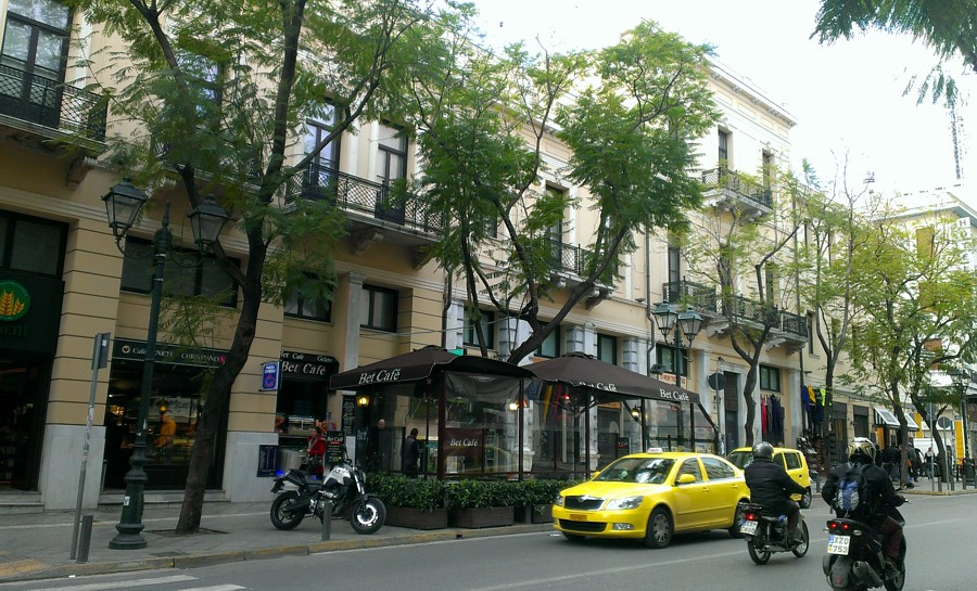 athinas